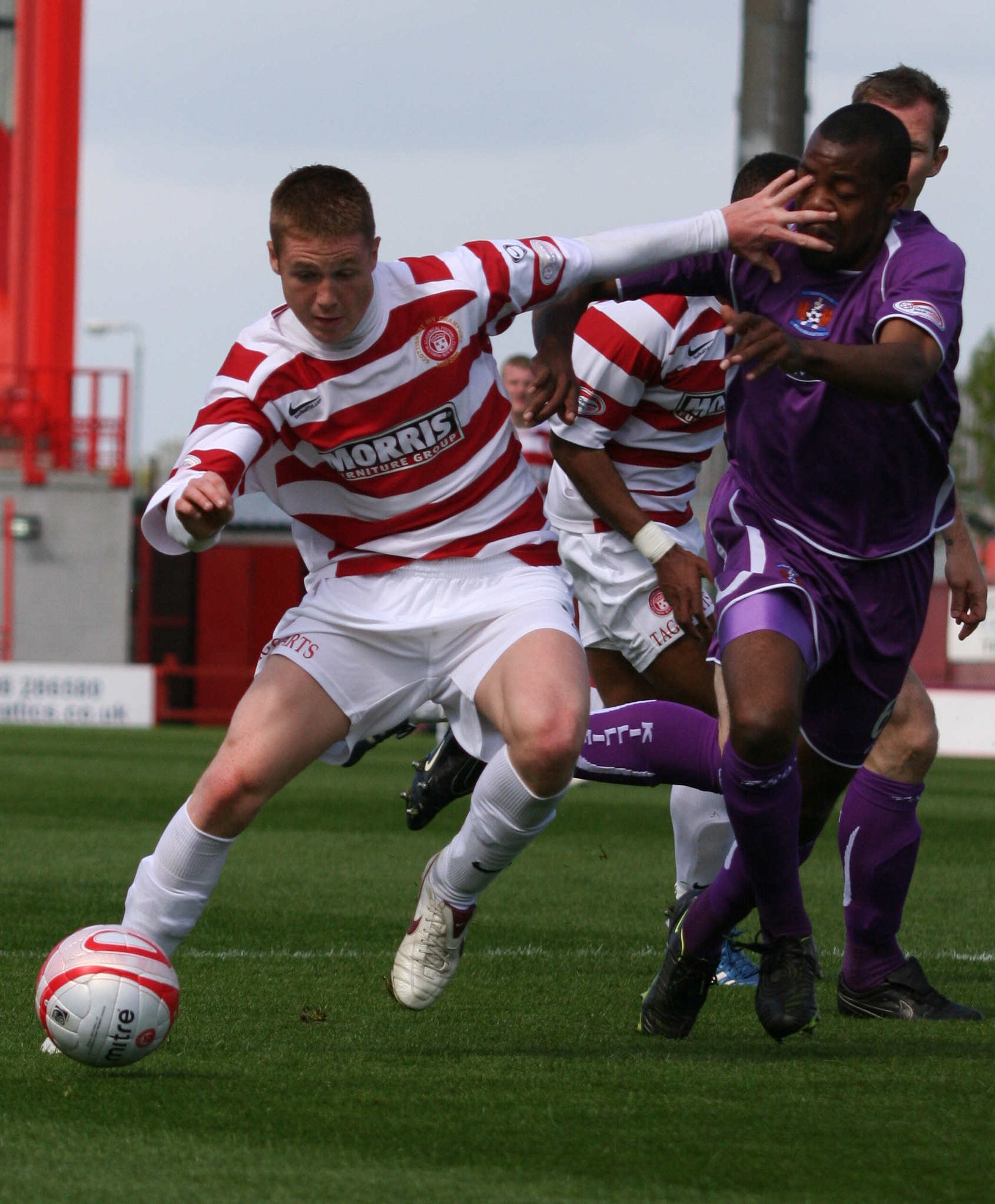 Hamilton vs Kilmarnock - 2-1